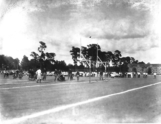 A football game at Fleming Field, the precursor to Florida Field at the University of Florida, early 1920s